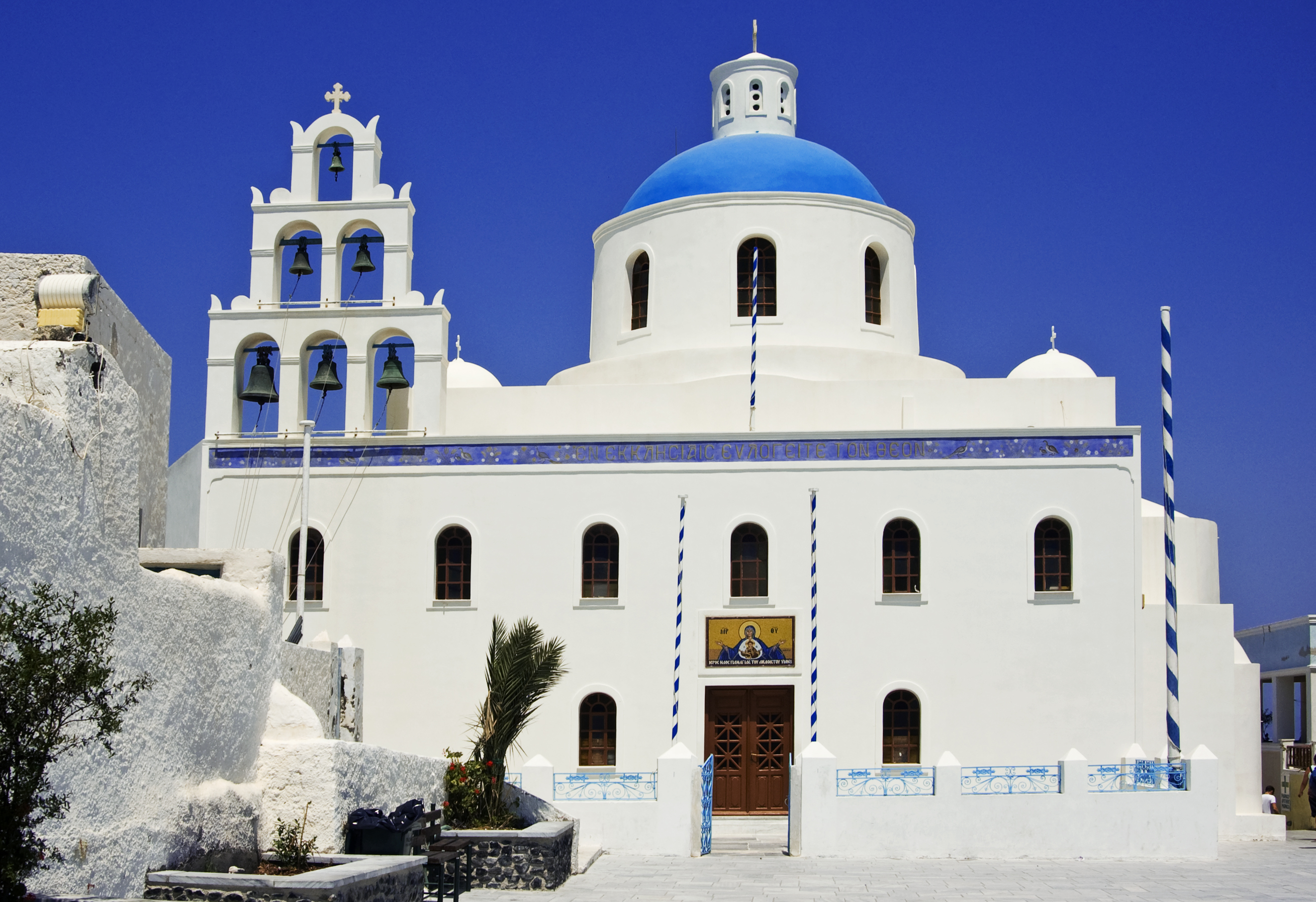 Klick here for a large view!